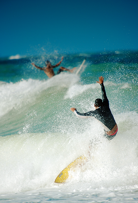 Two people surfing on a beach in Brazil.